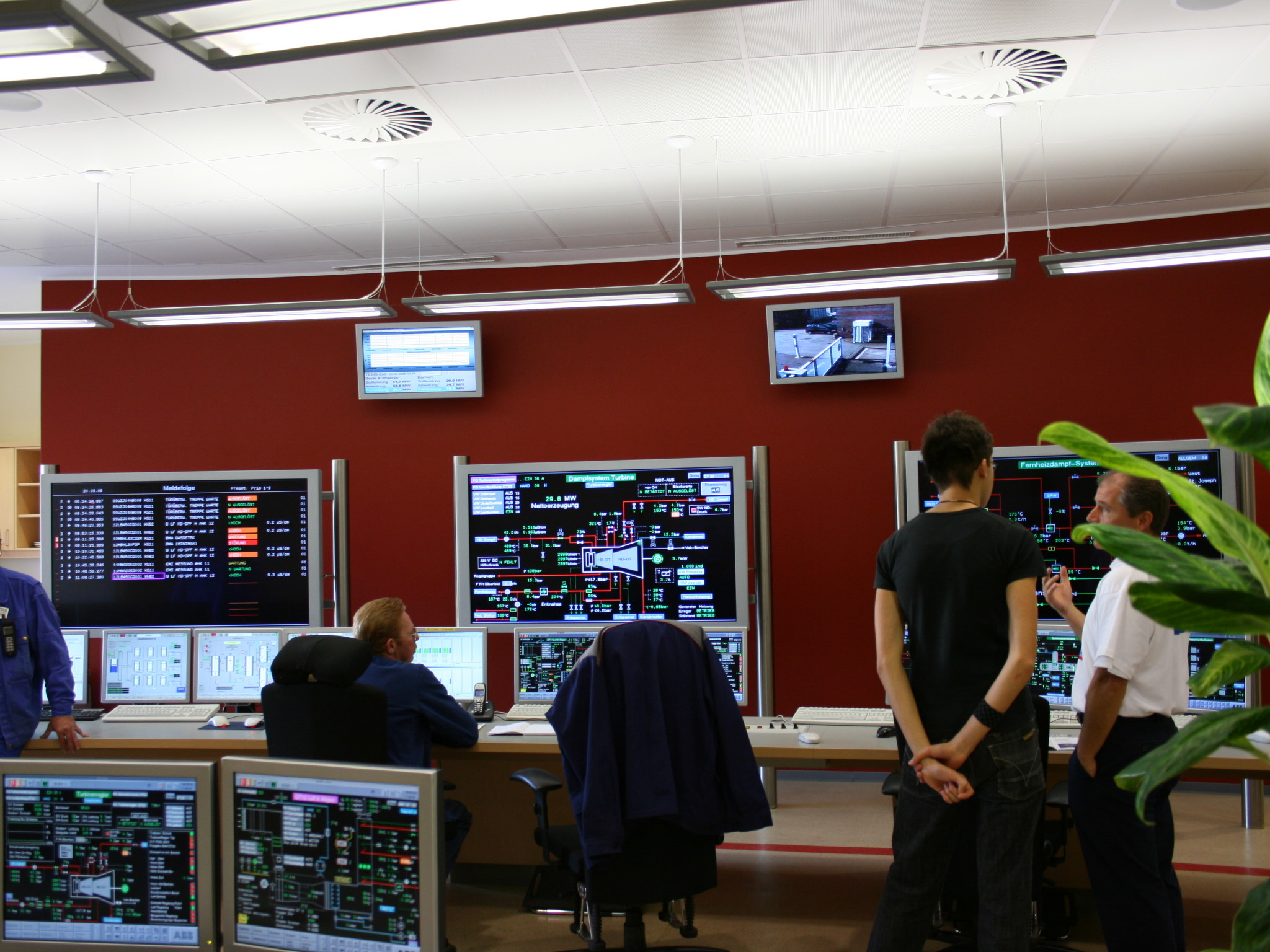 Heizkraftwerk in Wuppertal-Barmen